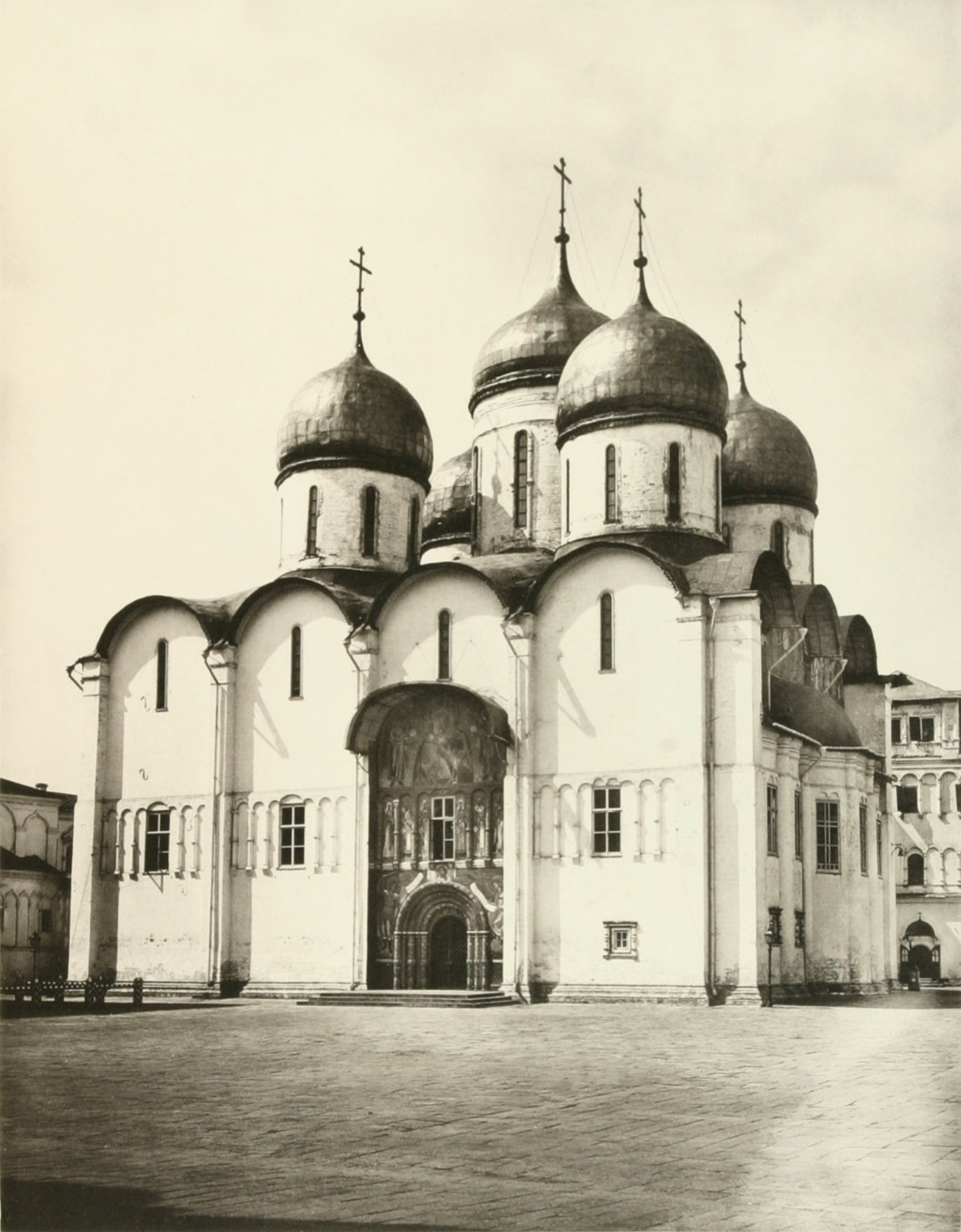 Dormition cathedral, Moscow.